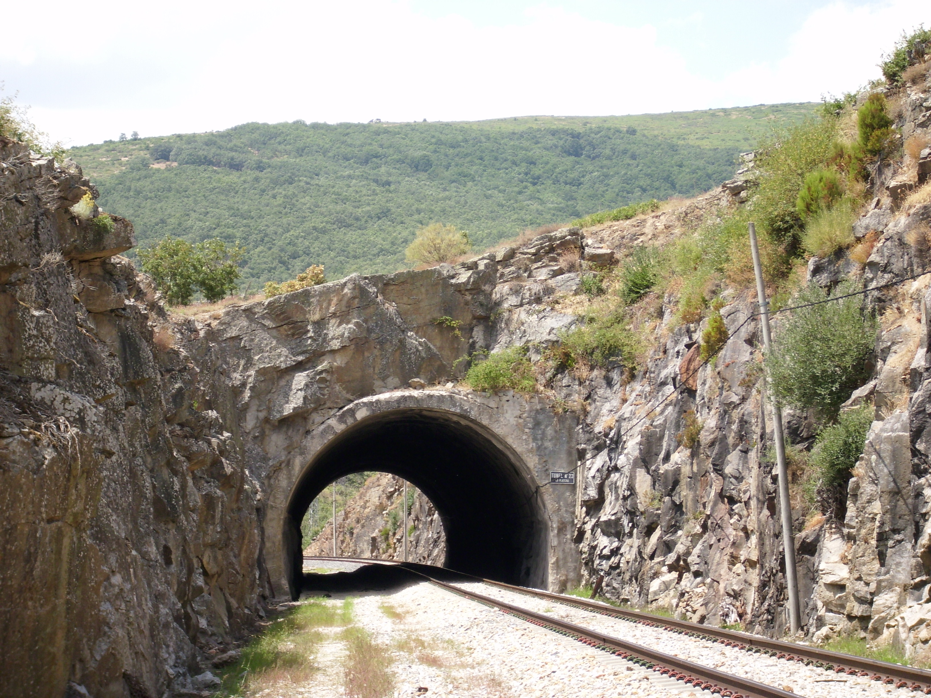 Tunnel between La Acebeda and Robregordo stations (90 km. north of Madrid) Madrid-Burgos railway